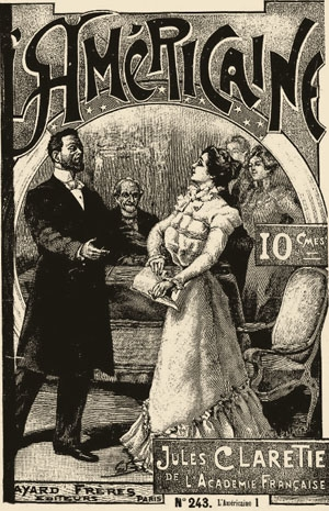 Cover of L'Américaine by French writer, playwright, literary critic and historian Jules Claretie (1840-1913)